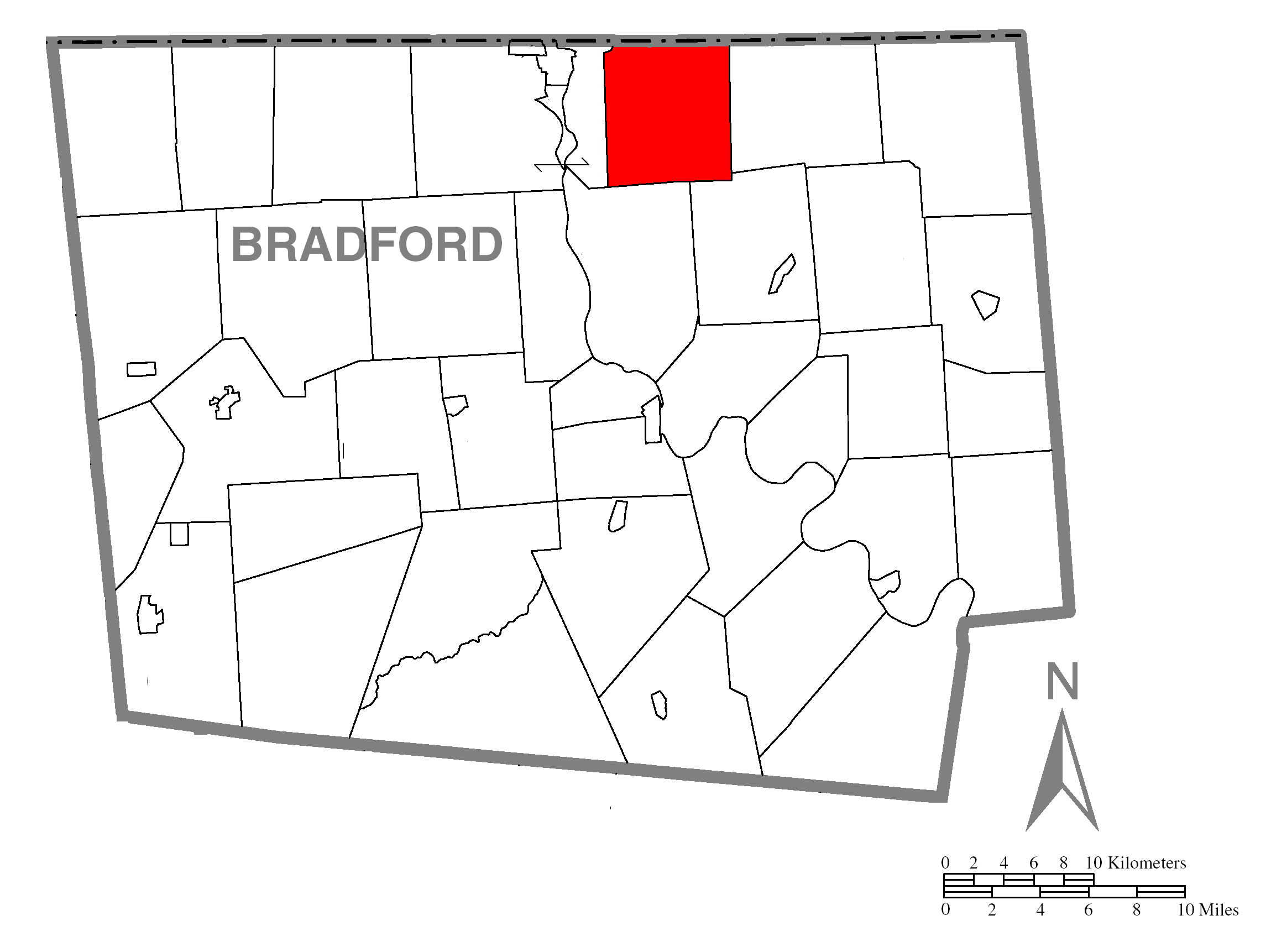 A map of Bradford County showing Litchfield Township, Pennsylvania (alternate) highlighted on the map.